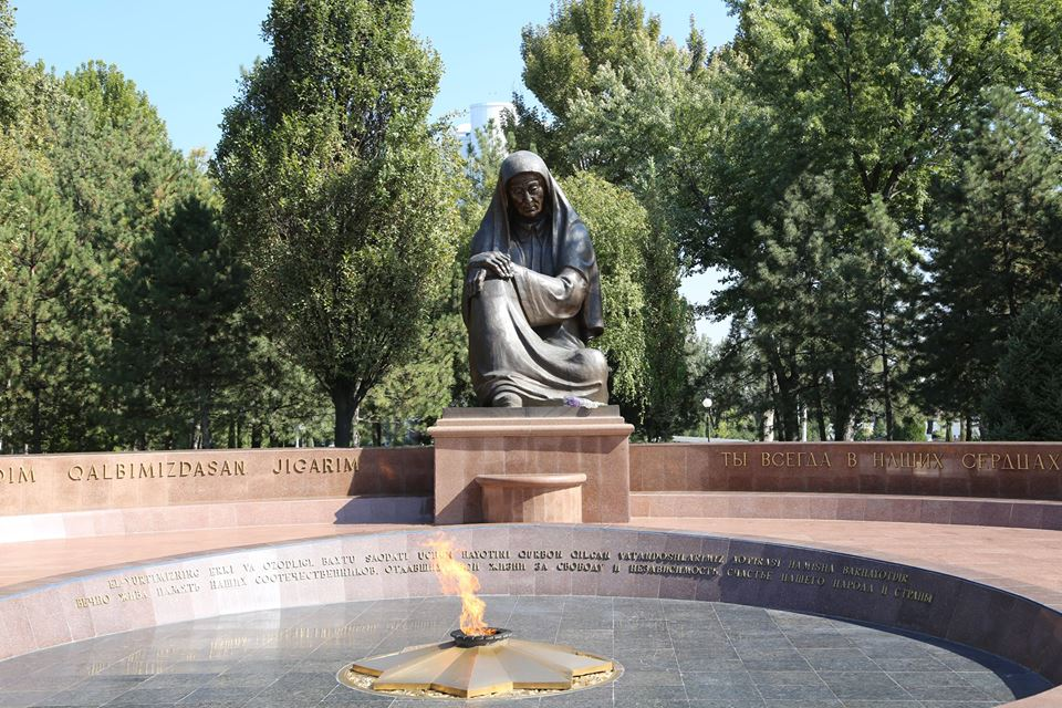 Independence square in Tashkent